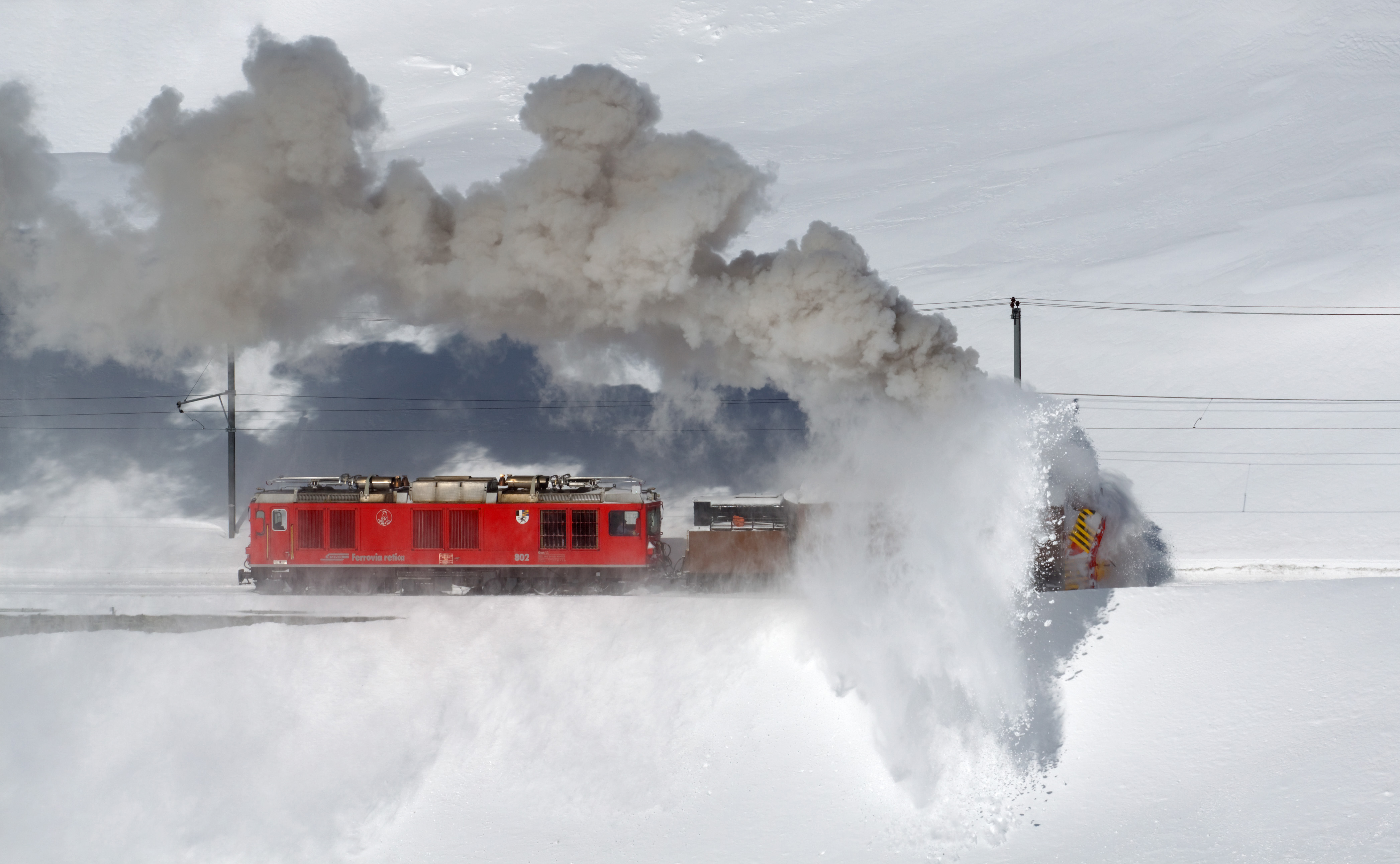 Rotary snowplow RhB Xrotd 9213 working on the Bernina Line at Lago Bianco, Switzerland. This picture was taken on a special event for photographers, but operations like this were common until the 1960s. Today the Xrotd is rarely used, when there's lots of snow to clear, and it's mainly kept for the pleasure of railfans. The pushing locomotive is a dual mode (diesel and electric) Gem 4/4.